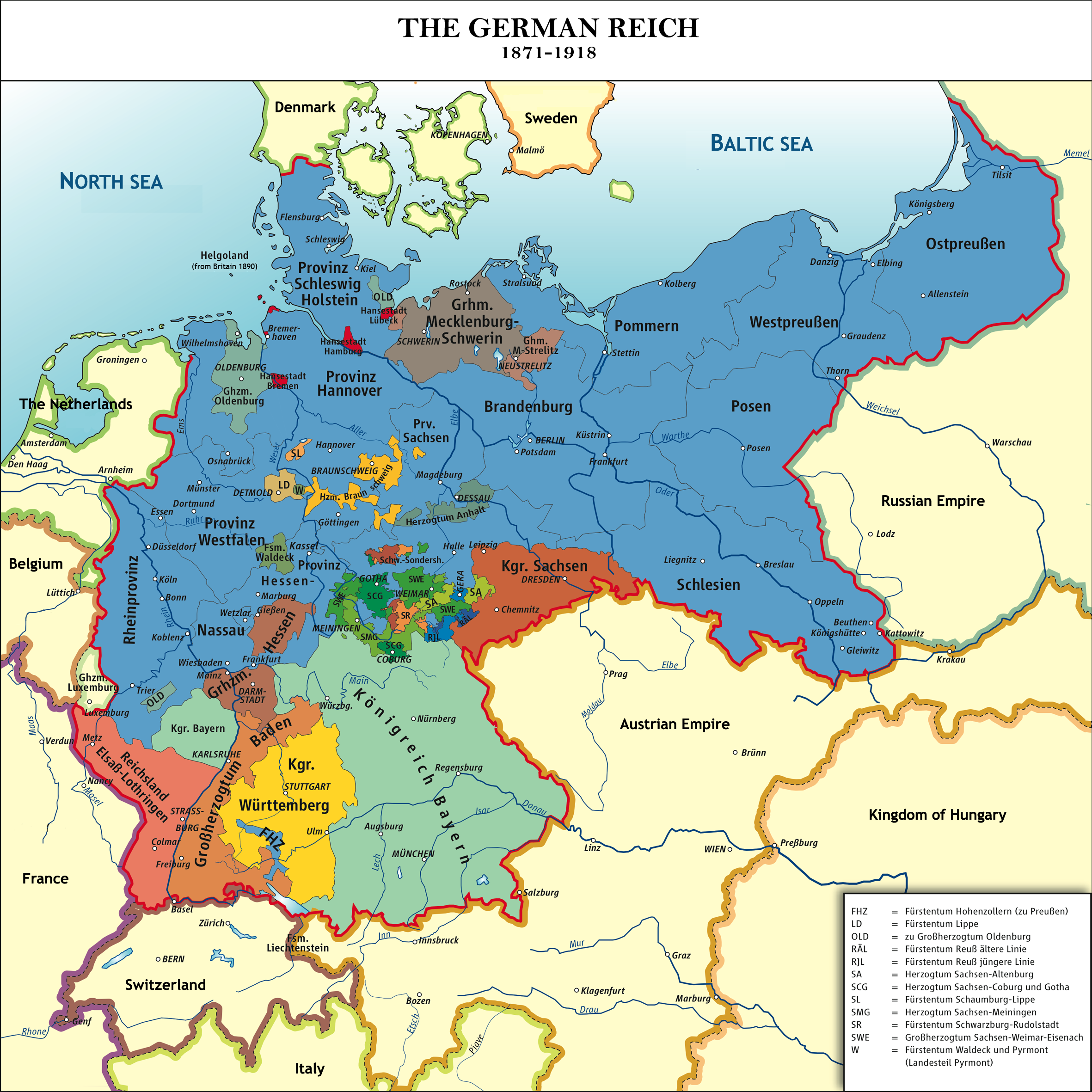 Map of German Reich 1871–1918. Search terms (selection): Helgoland, Flensburg, Schleswig, Kiel, Provinz Schleswig Holstein, Old, Hansestadt Lübeck, Bremerhaven, Hansestadt Hambürg, Bremerhaven, Wilhelmshaven, Grhm. Mecklenburg-Schwerin, Schwerin, Stralsund, Kolberg, Pommern, Stettin, Ghm. M.Strelitz, Groningen, The Netherlands, Ems, Osnabrück, Weser, Hannover, Braunschweig, Prv. Sachsen, Magdeburg, Dessauch, Herzogtum Anhalt, Brandenburg, Berlin, Potsdam, Küstrin, Warthe, Oder, Frankfurt, Liegnitz, Schlesien, Kgr. Sachsen, Dresden, Chemnitz, Prag, Elbe, Provinz Westfalen, Fsm. Waldeck, Kassel, Göttingen, Hessen, Marburg, Wetzlar, Gießen, Hessen, Nassau, Main, Coburg, Meiningen, Gotha, Gera, Weimar, Düsseldorf, Köln, Bonn, Rhein, Koblenz, Wiesbaden, Mainz, Rheinprovinz, Belgium, Ghzm. Luxemburg, Posen, Breslau, Oppeln, Beuten, Königshütte, Gleiwitz, Kattowitz, Thorn, Graudenz, Russian Empore, Lodz, Warschau, Kraukau, Königkreich Bayern, Nürnberg, Regensburg, Isar, Donau, Augsburg, München, Darmstadt, Karlsruhe, Reichsland Elsaß-Lothringen, Metz, Ghzm. Luxemburg, Kgr. Stuttgart, Württemberg, Ulm, Zürich, Inn, Innsbruck, Salzburg, Linz, Wien, Austrian Empire, Modau, Prag, Elbe, Brünn, Wien, Pressburg